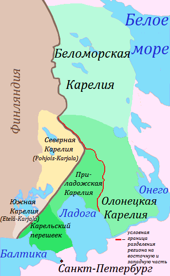 Map of the historical region "Karelia"